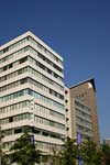 Ohe-Bashi Osaka Office